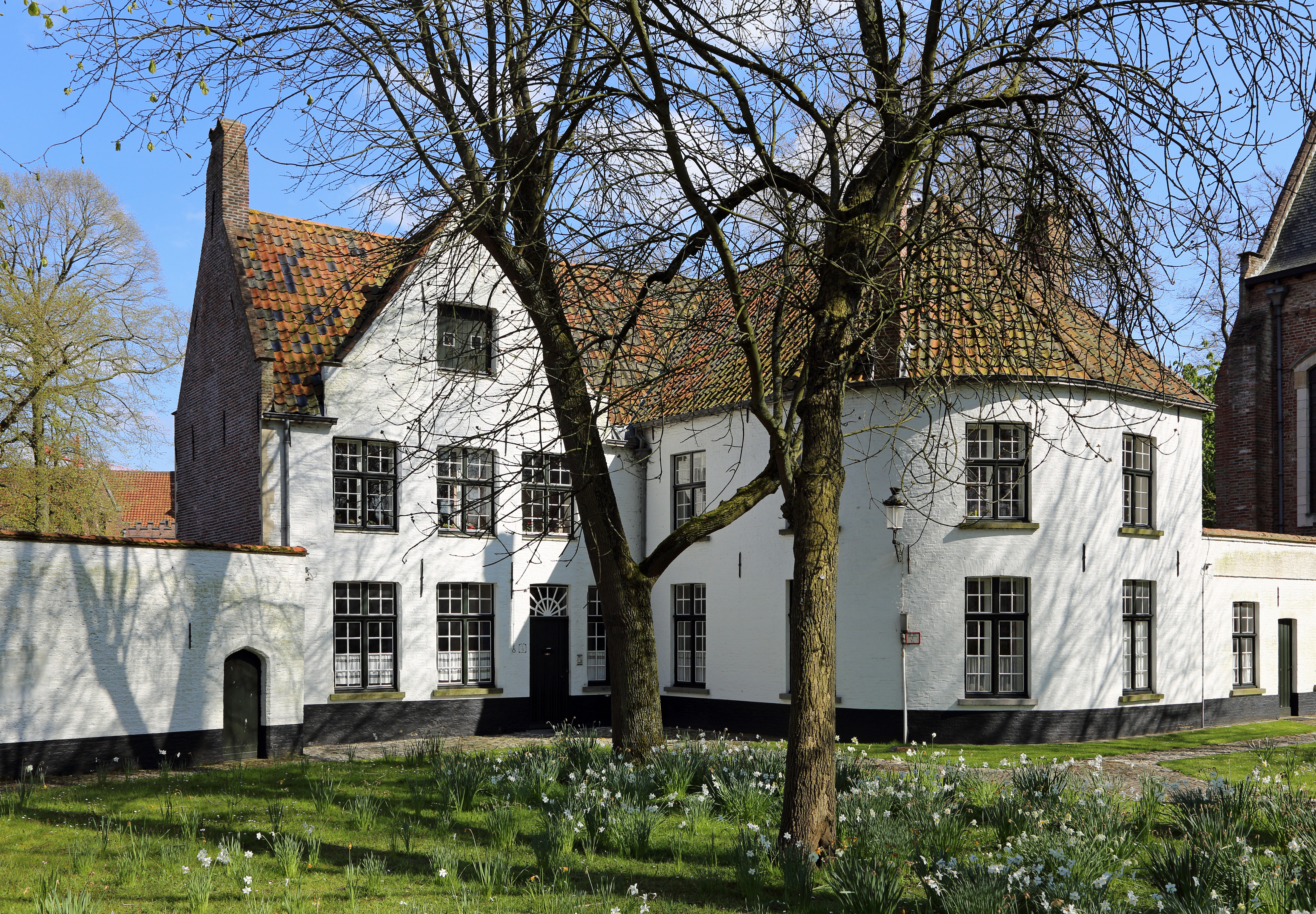 Bruges (Belgium): house Begijnhof 3